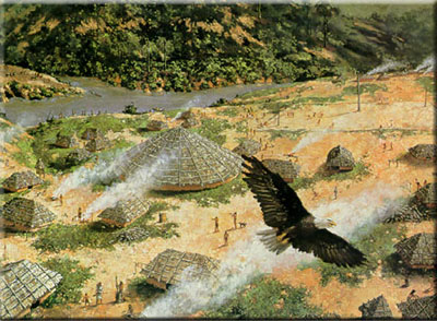 Yuchi Town. The archeological sites on Fort Benning, U.S.A., include both prehistoric and historic Native American sites. There is evidence of occupation or use as far back as approximately 12,000 years before present (BP). The most recent sites represent the last homes of the Muscogee (Creek) Tribe and the Yuchi (or Euchee) Tribe, both removed to what is now the state of Oklahoma, along the "Trail of Tears" in 1836. The Site of Yuchi Town, portrayed above (artist: Martin Pate, Yuchi Town, 1776, commissioned by the National Park Service) has recently been designated a National Historic Landmark. Artifacts such as glass trade beads, firearms, plus other trade and locally produced items have been recovered from the site by archeologists from the Smithsonian Institute and Fort Benning.